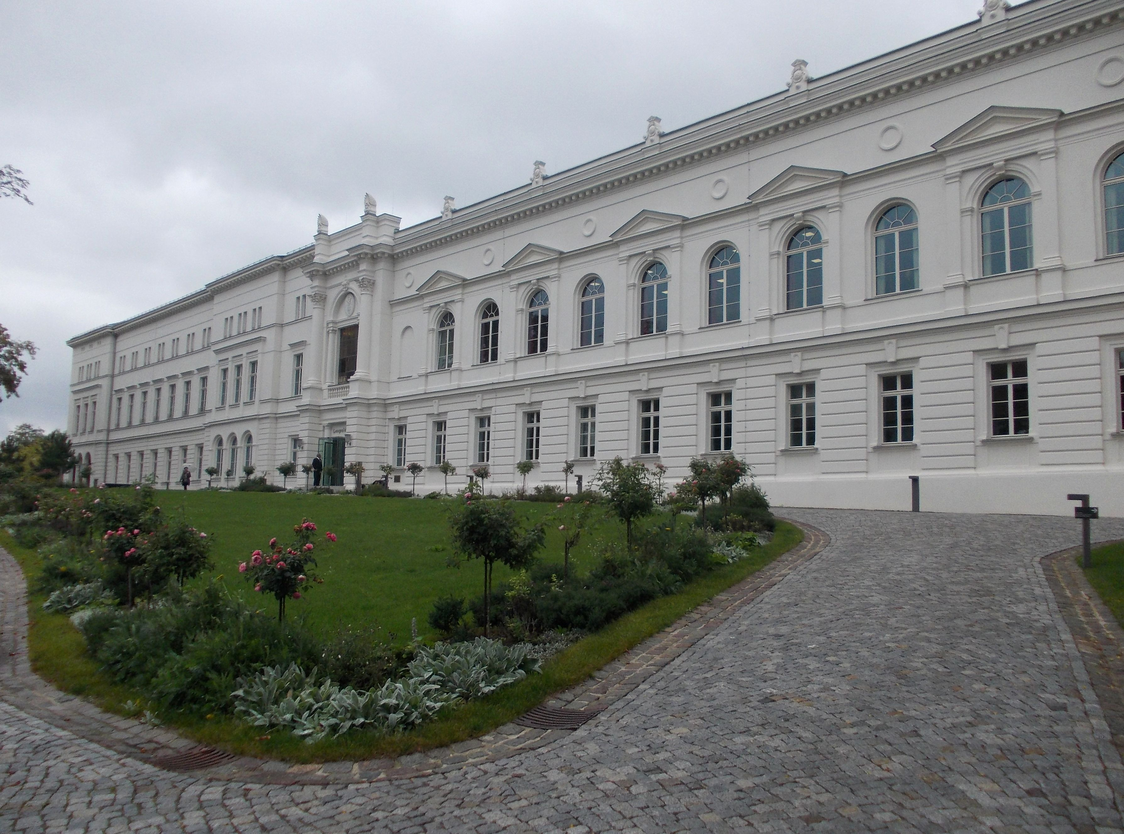 Headquarters of the German Academy of Sciences Leopoldina in Halle/Saale (Saxony-Anhalt), formerly the bulding of the Freemasons' lodge The Three Swords